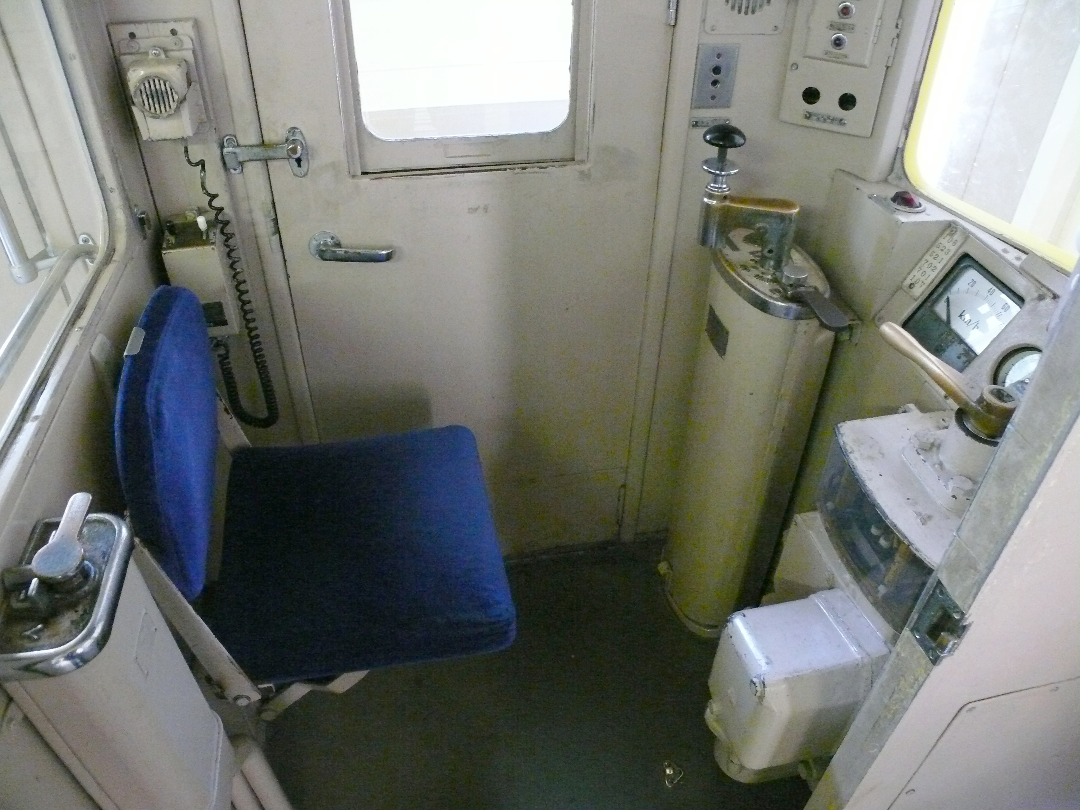 Nagoya City Tram & Subway Museum.